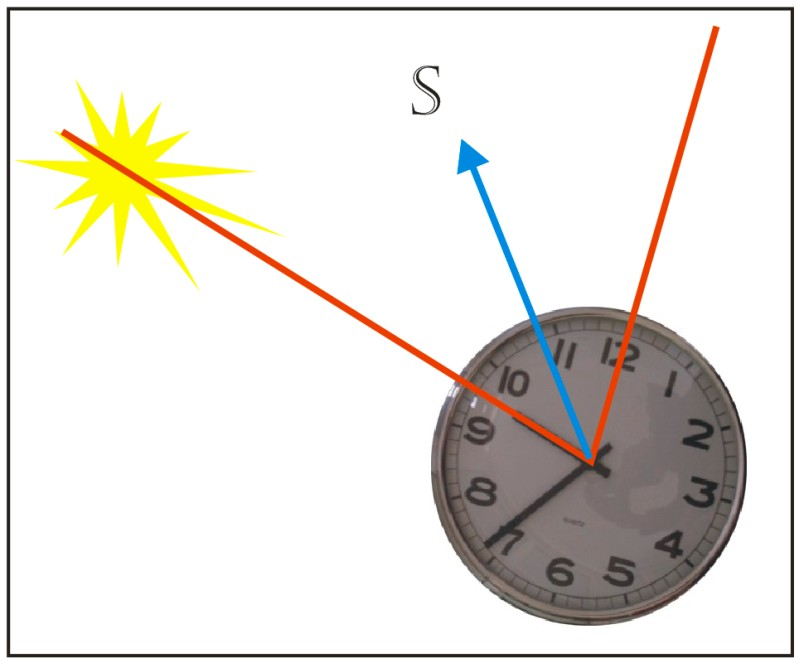 Finding South